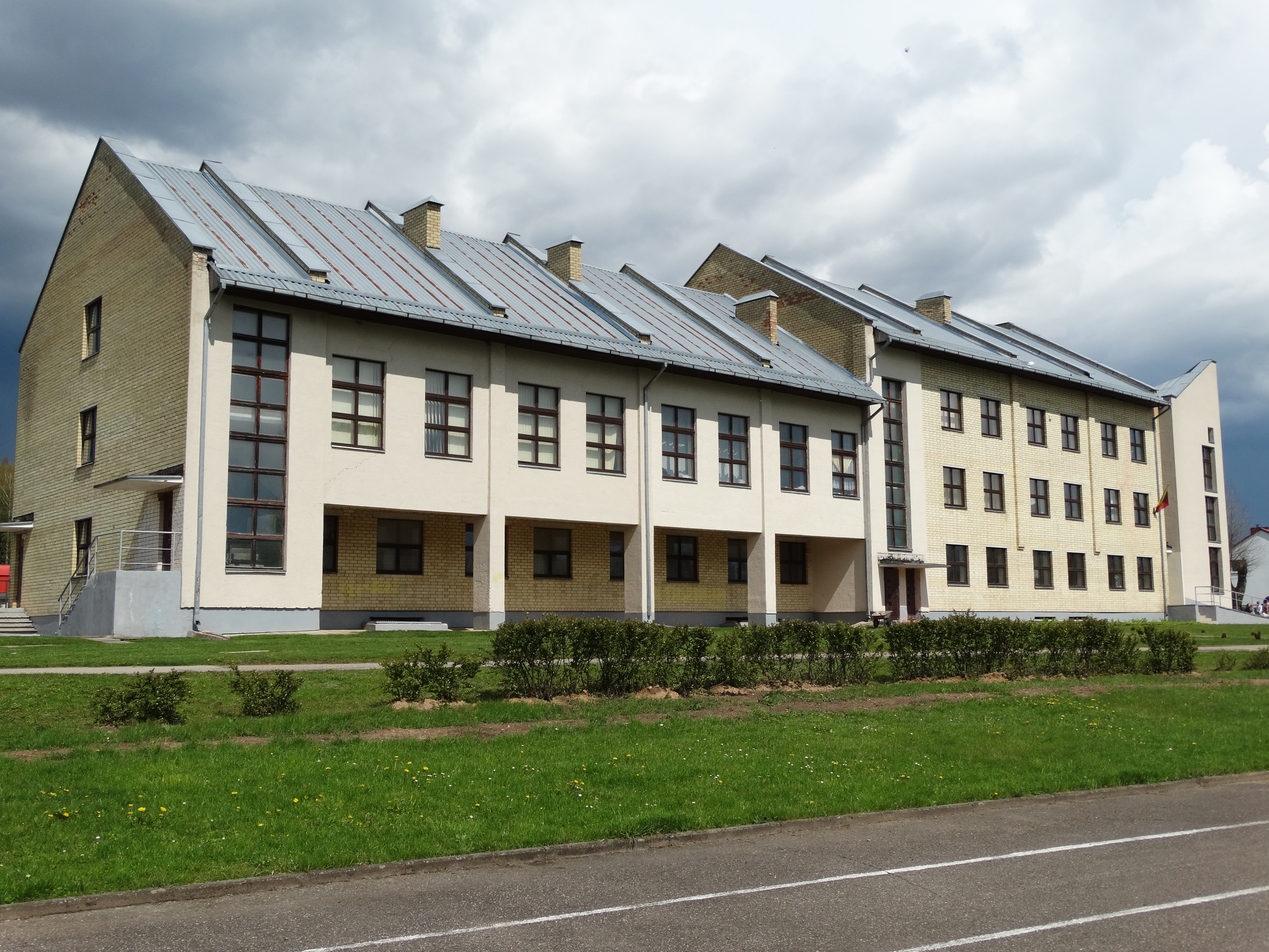 Aušra Gymnasium, Jašiūnai, Šalčininkai District, Lithuania